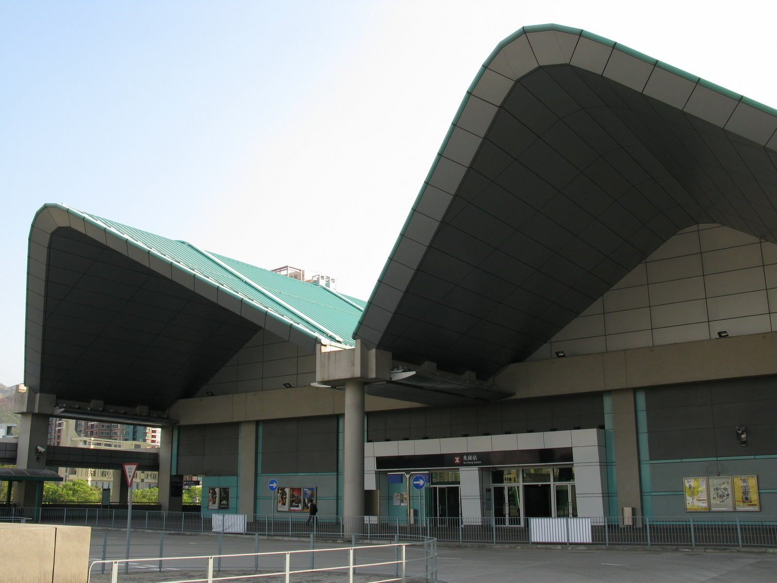 兆康站 E出口 Exit E of Siu Hong Station